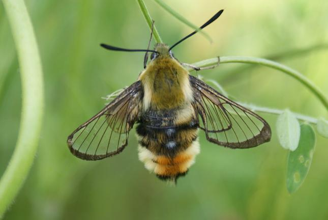 Narrow-bordered Bee Hawk-moth